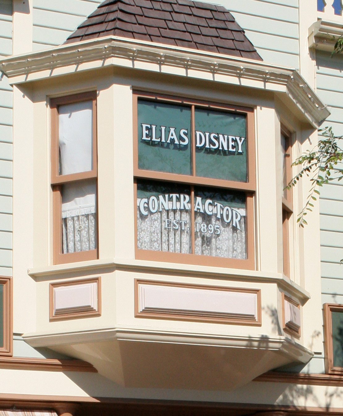 Photo taken by David Ball, August 2006.